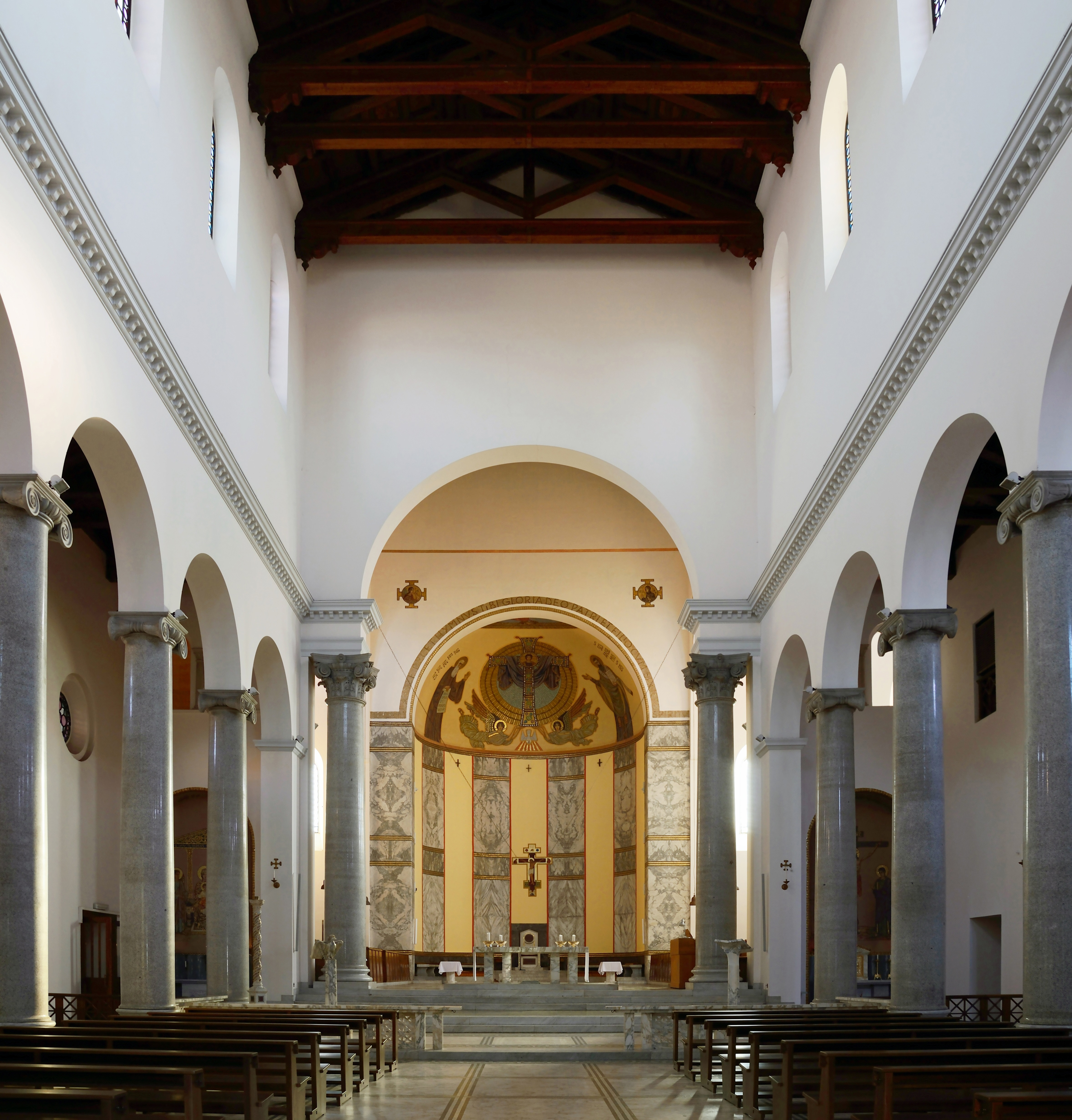 Intern of Church Sant' Anselmo all'Aventino